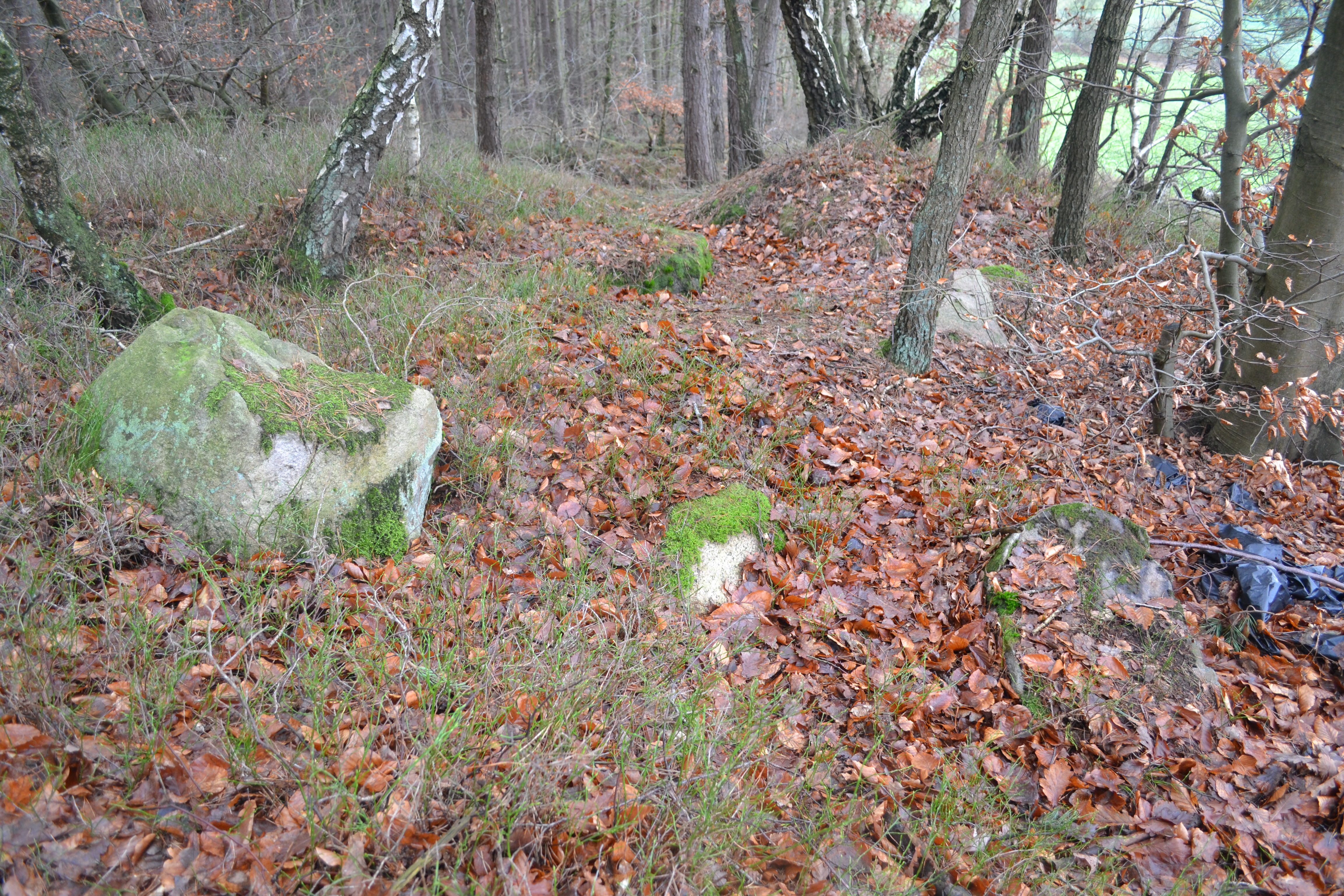 Megalithic chambered tomb in Eyendorf (Grab 2), Landkreis Harburg, Lower Saxony, Germany.